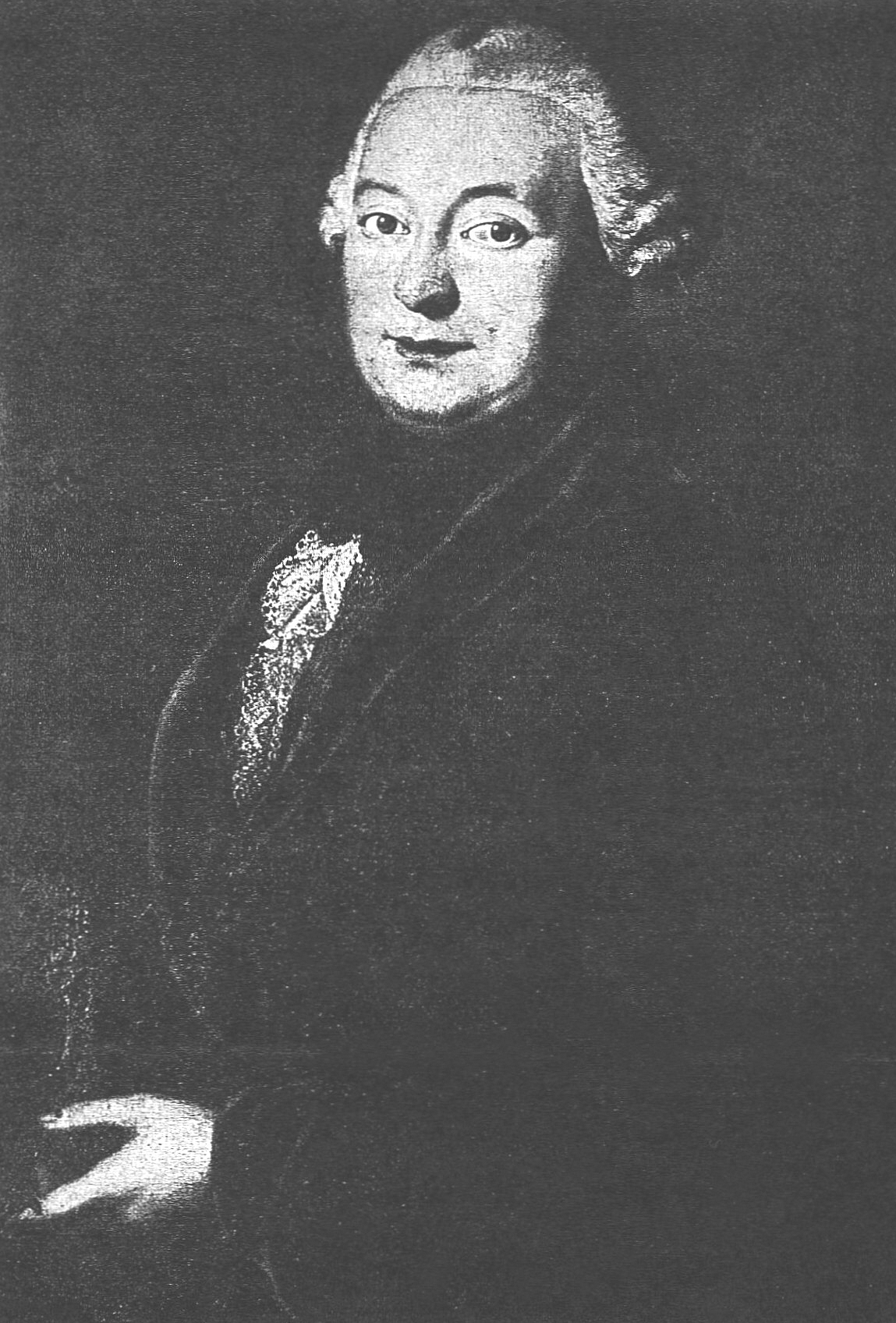 Georg Philipp Dohlhoff